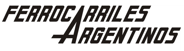 Logo of defunct Argentine railway company, Ferrocarriles Argentinos.